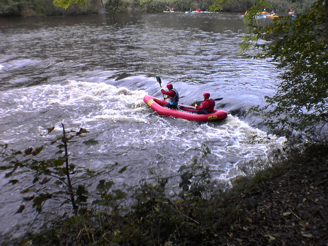 Symonds yat rapids top wave, Jamsta 21:05, 13 November 2006 (UTC)